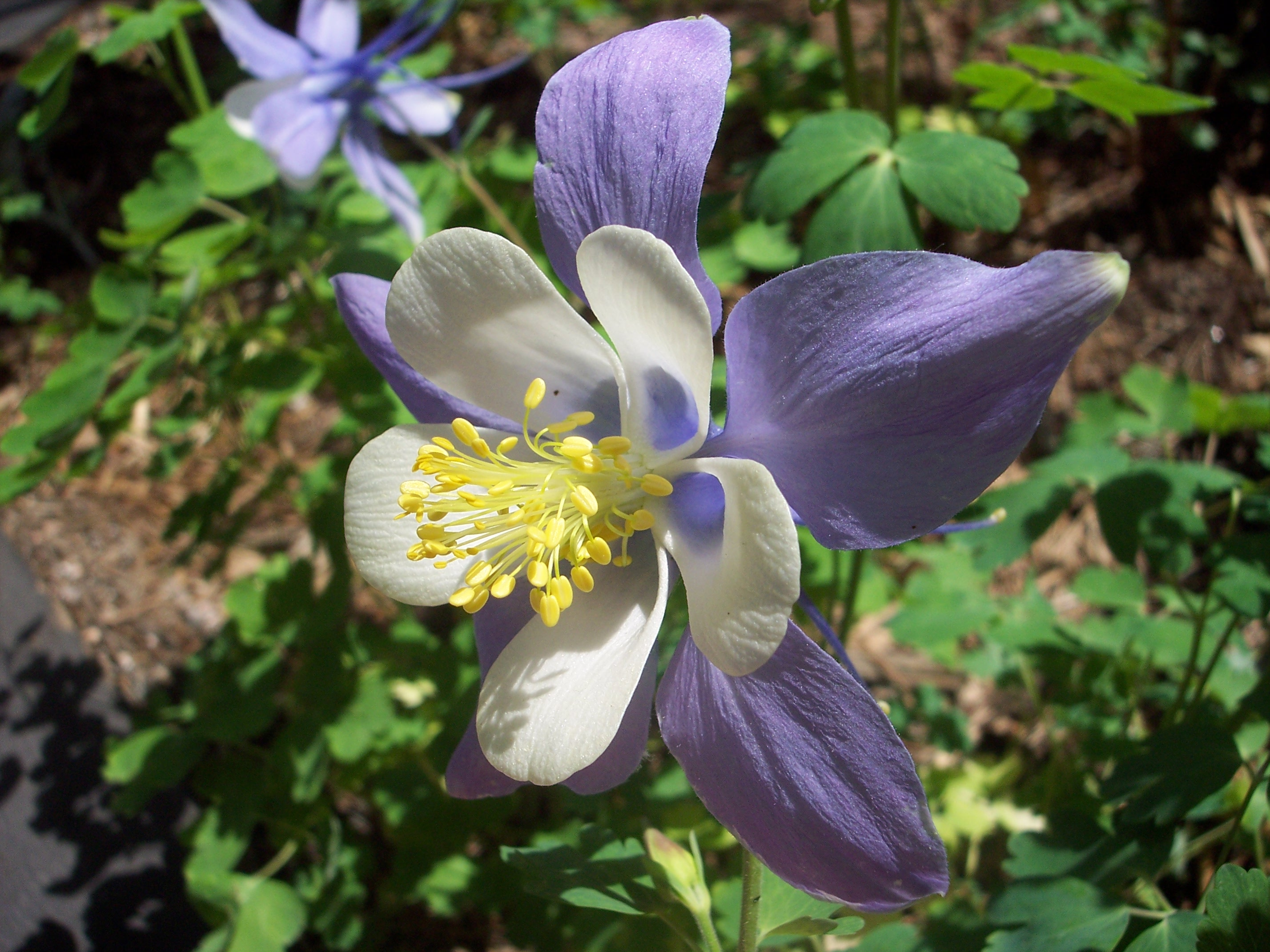 Summary Close-up of a columbine flower. Picture taken by 127x0x0x1 near Seven Falls, Colorado using a Kodak DX7630. (2005)